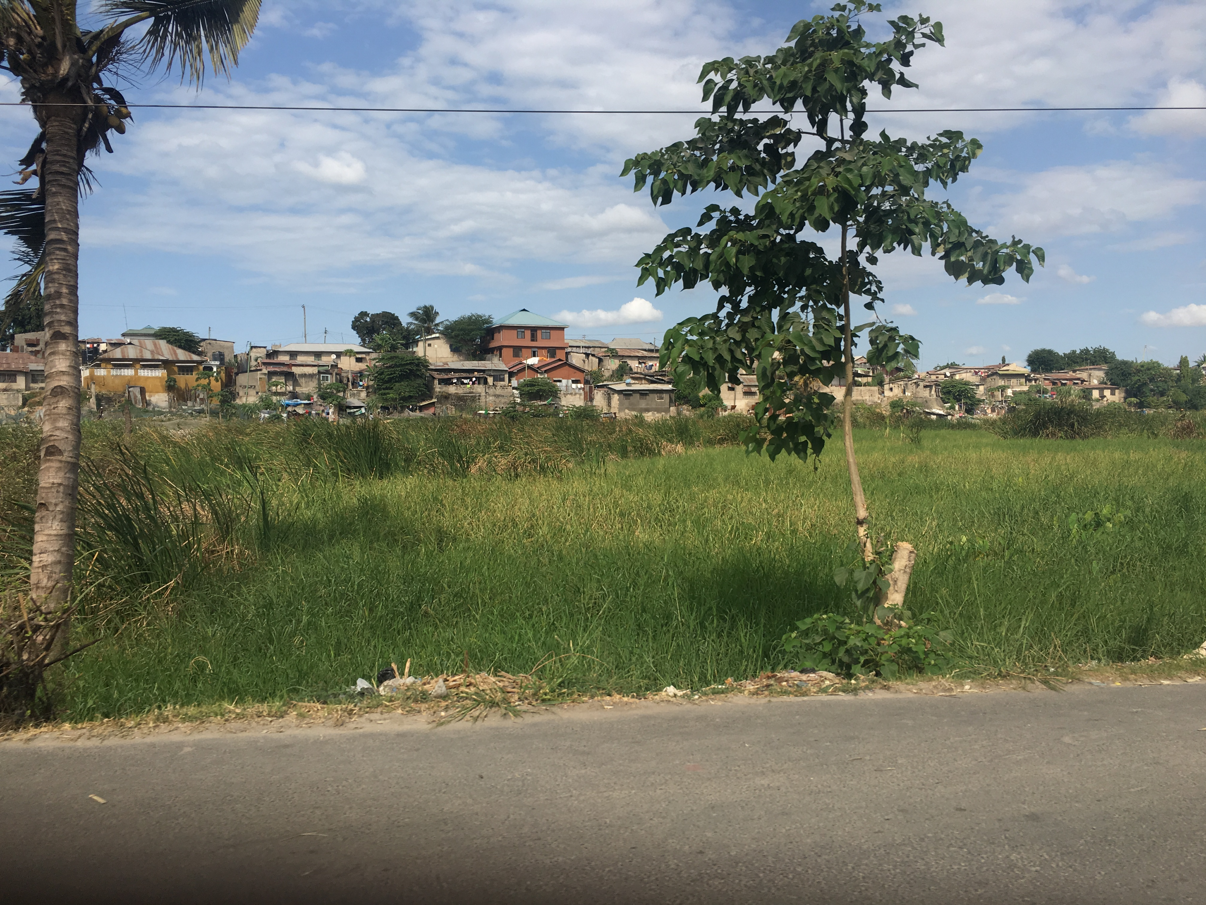 Hananasif